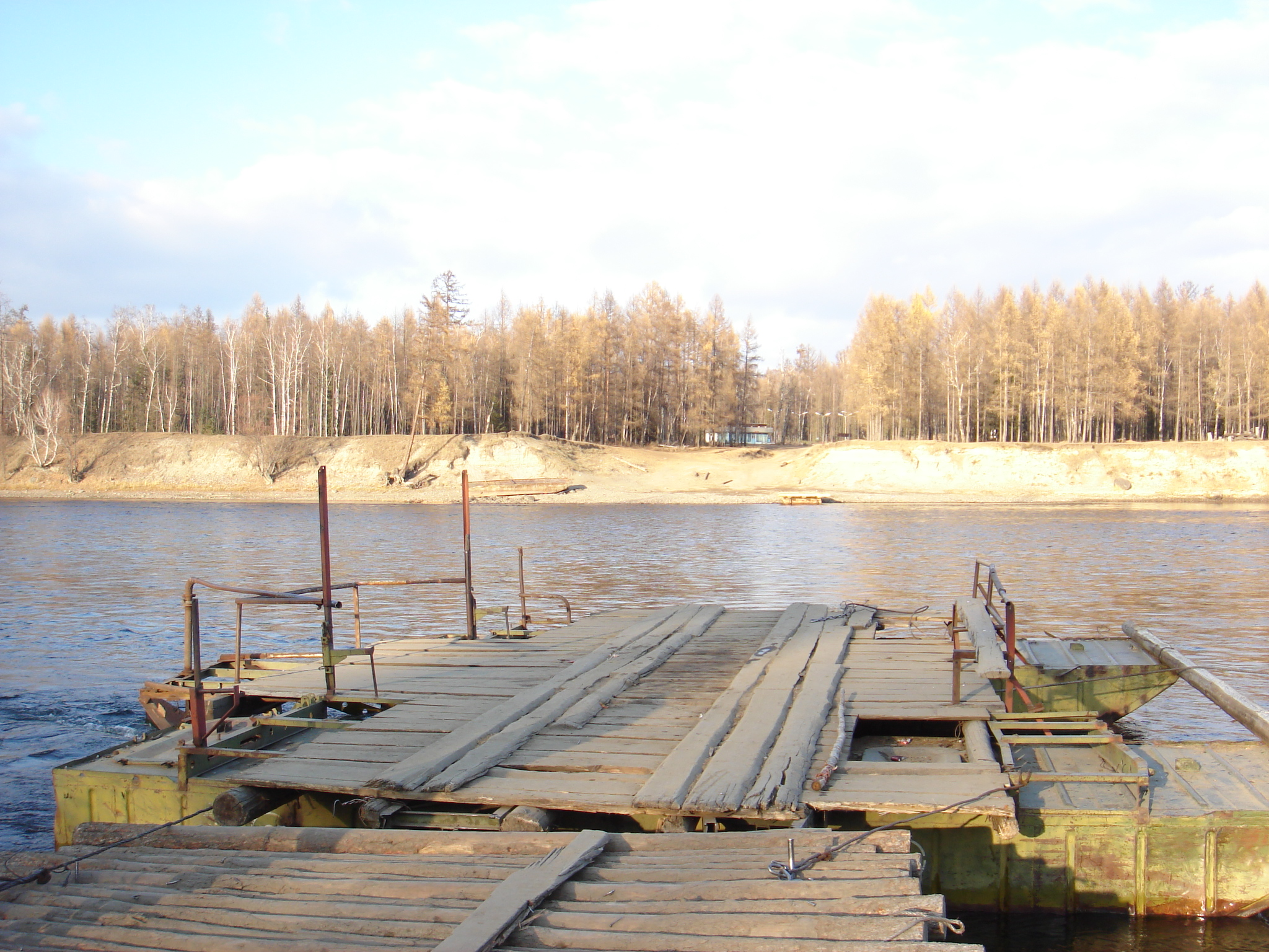 Ferry transport at Biy-Hem (Bolshoi Yenisei)river near Toora-Hem